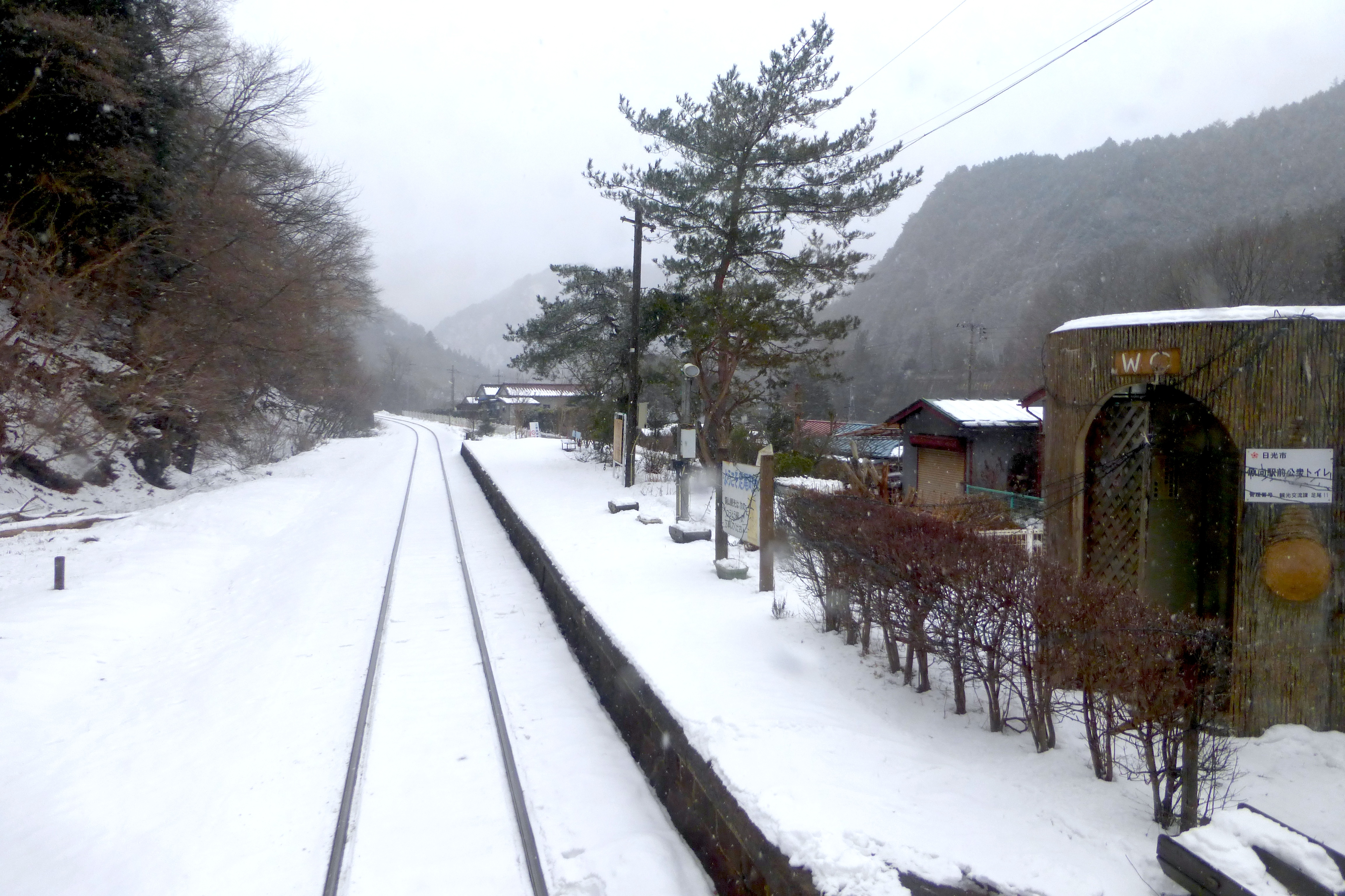 Haramukō Station (原向駅 Haramukō-eki) and platform on a snowy day.